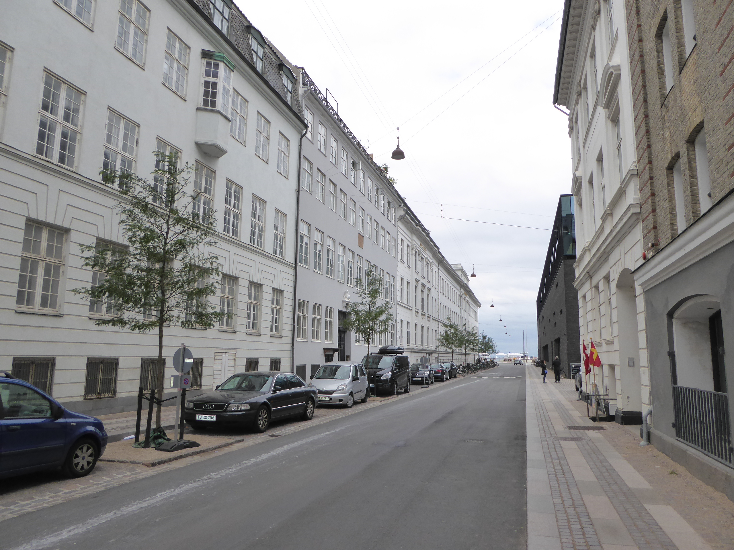 The street Kvæsthusgade in Indre By in Copenhagen.